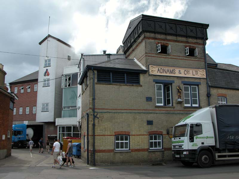 Adnams Brewery, Southwold, Suffolk.